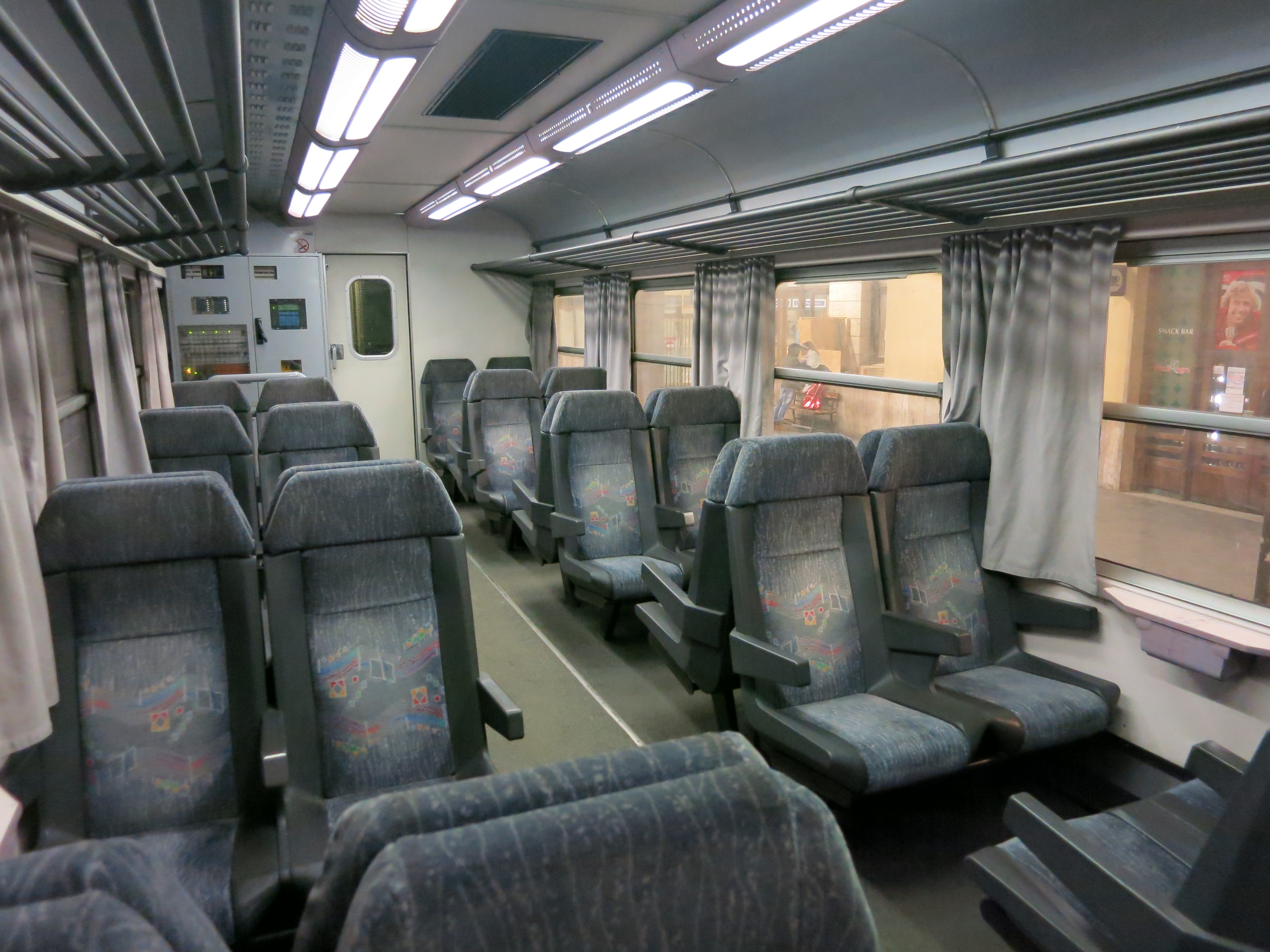 FCU ALn 776 motor coach on service as regional train 21632 from Roma Tiburtina to Rieti (through Orte and Terni)